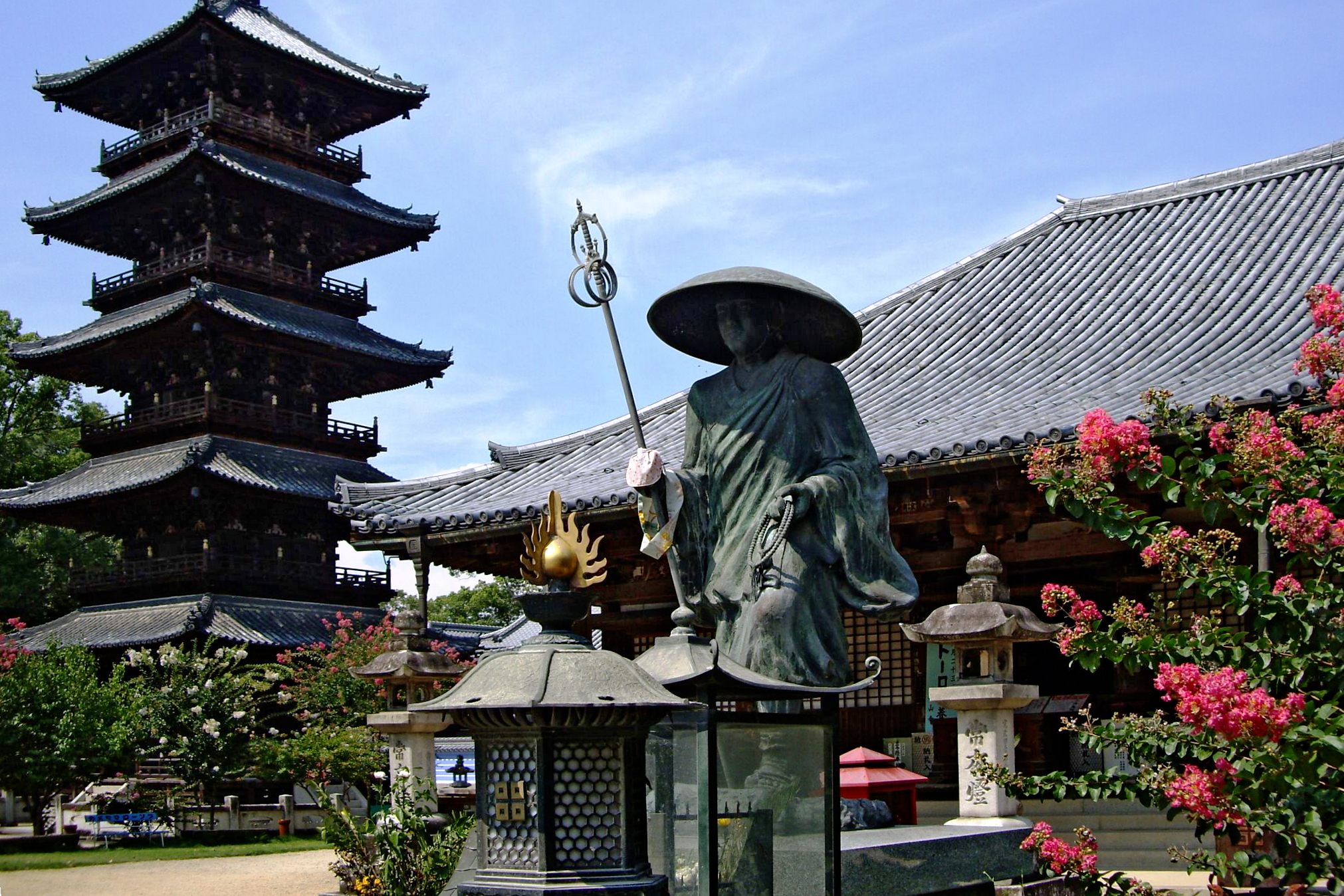 Bronze statue of Kukai in front of Motoyama-ji's Main Hall, Mitoyo, Kagawa prefecture, Japan.